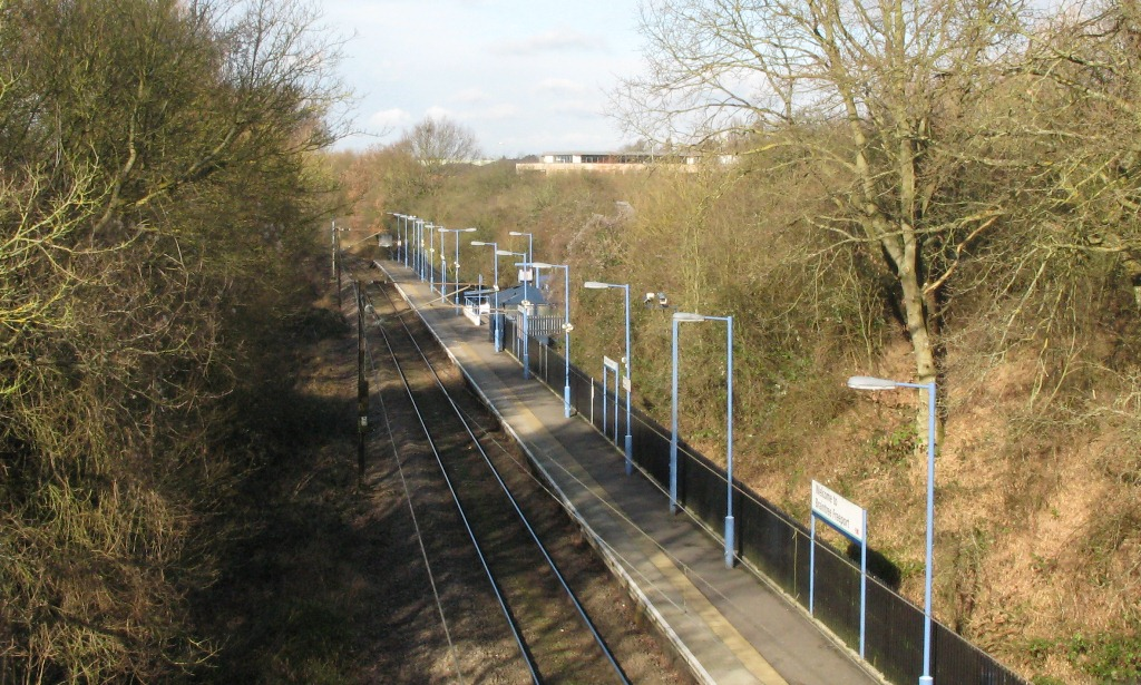 Braintree Freeport railway station serves an out-of-town shooping complex (which is above the cutting to the right) in Braintree, Essex.